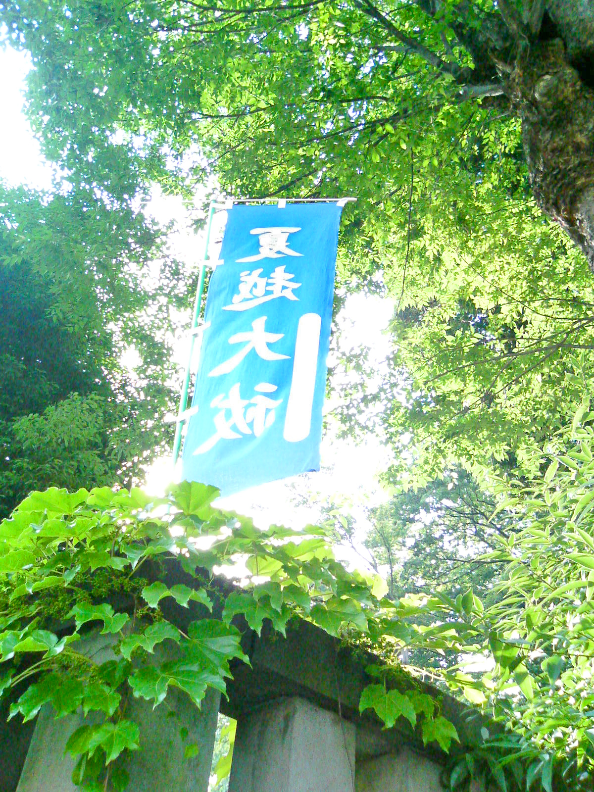 a flag of Nagoshi-no Ō-harae - at Tokorozawa Shimmei-sha, Tokorozawa, Japan.